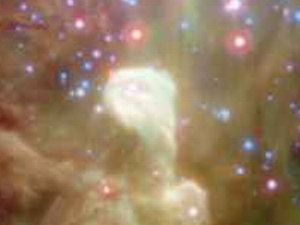 The Cone Nebula, part of NGC 2264 in the infrared wavelengths